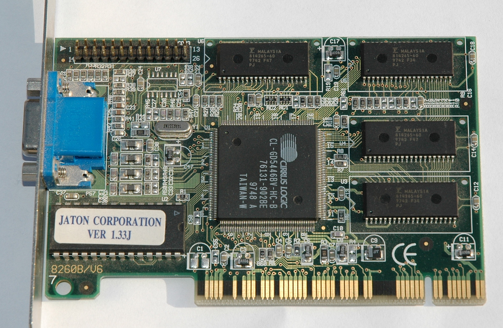 The graphics card i've implemented for FAUmachine.